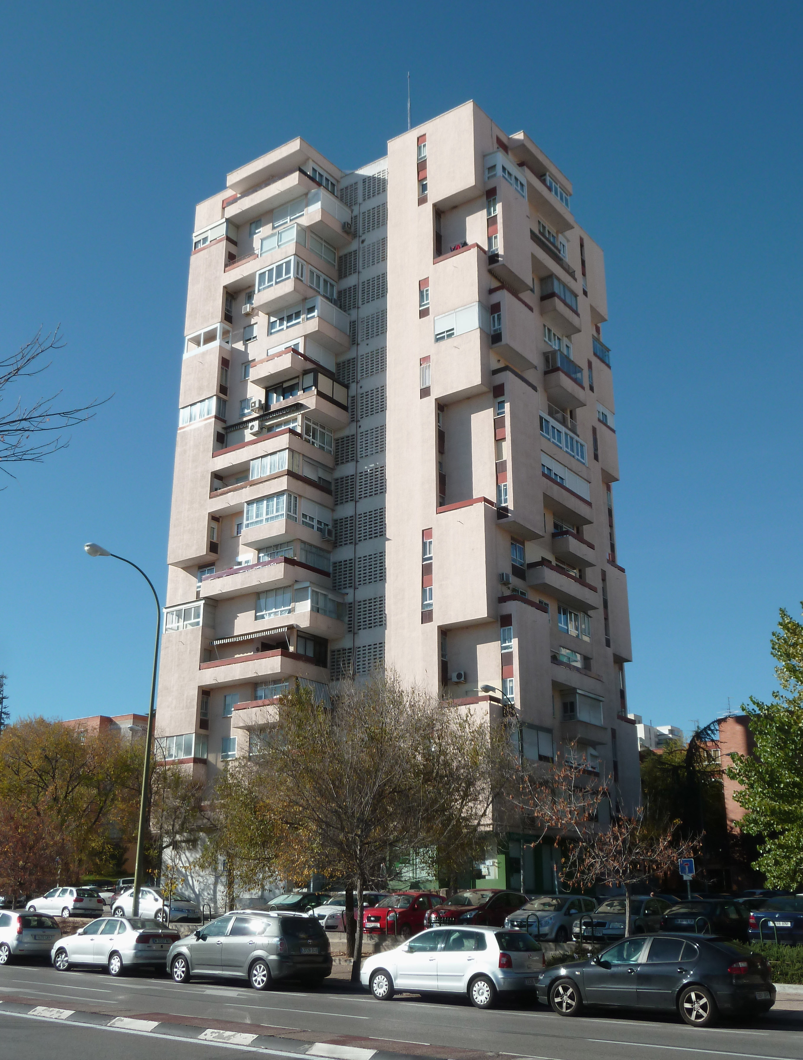 Housing building at 41st Calle de Alcorisa (street) in Hortaleza district in Madrid (Spain). Architects: Antonio Camuñas Paredes and José Antonio Camuñas Solís.